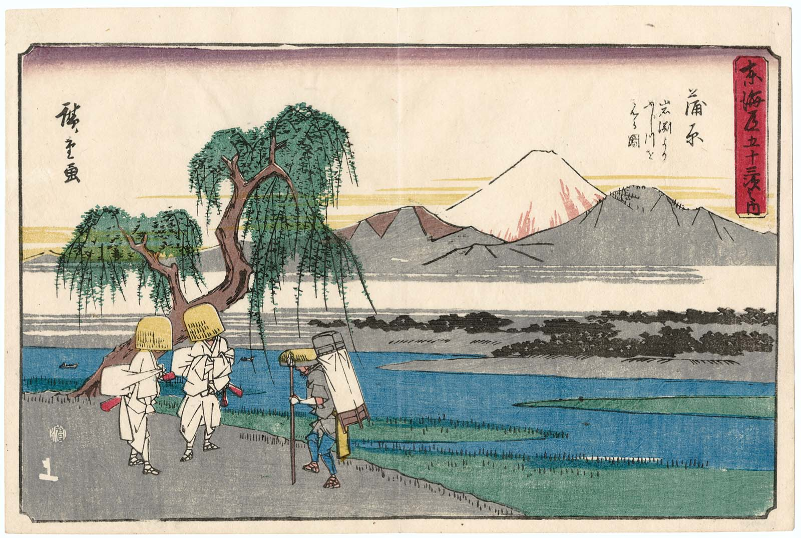 Kanbara: View of the Fuji River from Iwafuchi (Kanbara, Iwafuchi yori Fujikawa o miru zu), from the series The Fifty-three Stations of the Tôkaidô Road (Tôkaidô gojûsan tsugi no uchi), also known as the Gyôsho Tôkaidô